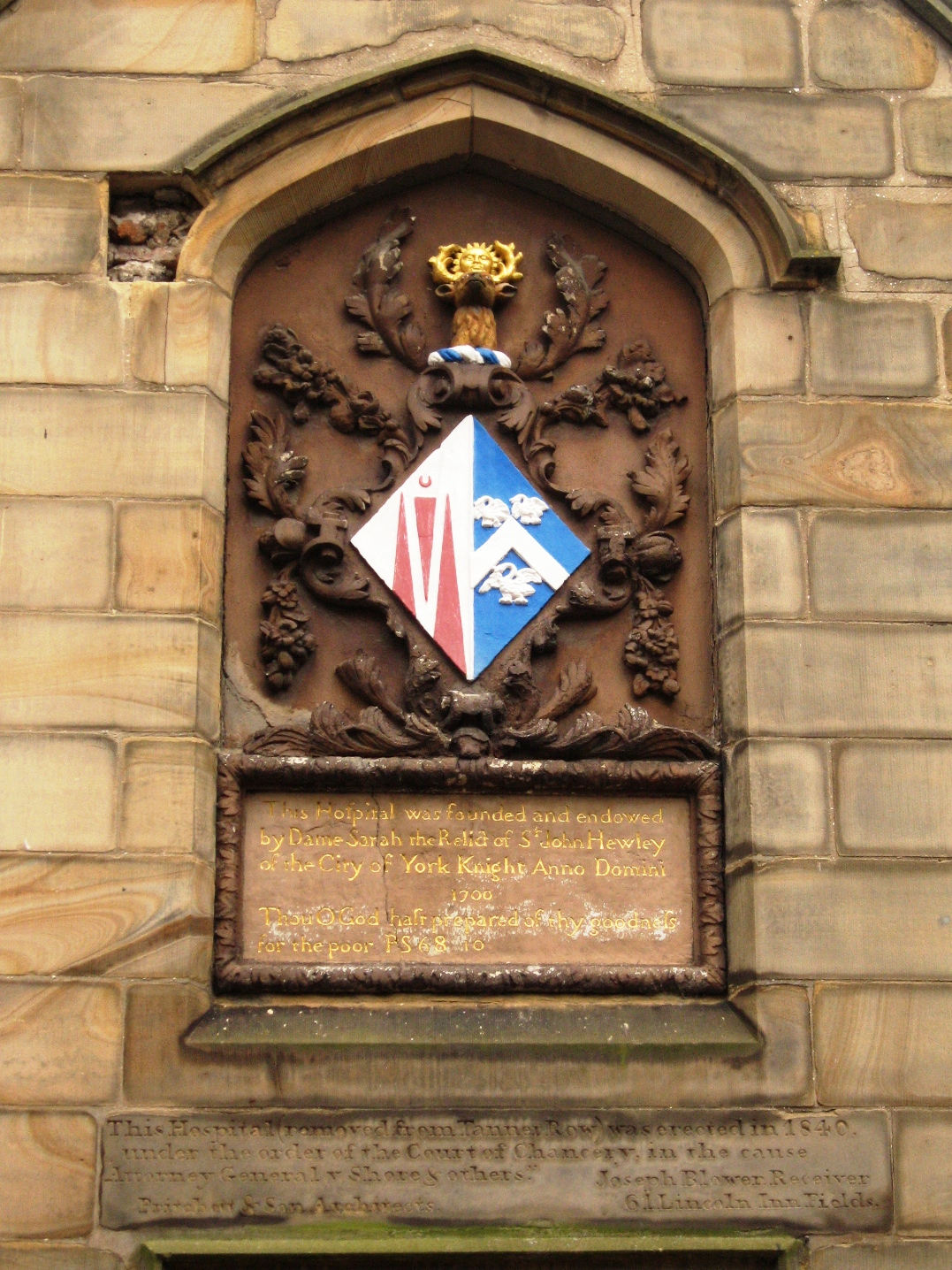 This Hospital was founded and endowed by Dame Sarah the Relict of Sir John Hewley of the City of York, Knight. Anno Domini 1700. Thou O God hast prepared of thy goodness for the poor. PS 68 10